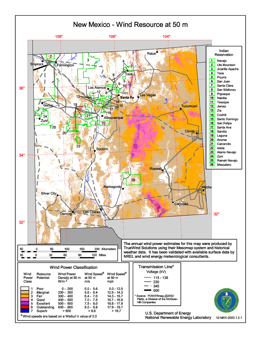 Average annual wind power distribution for New Mexico, 50m height above ground, also showing location of existing electrical transmission lines